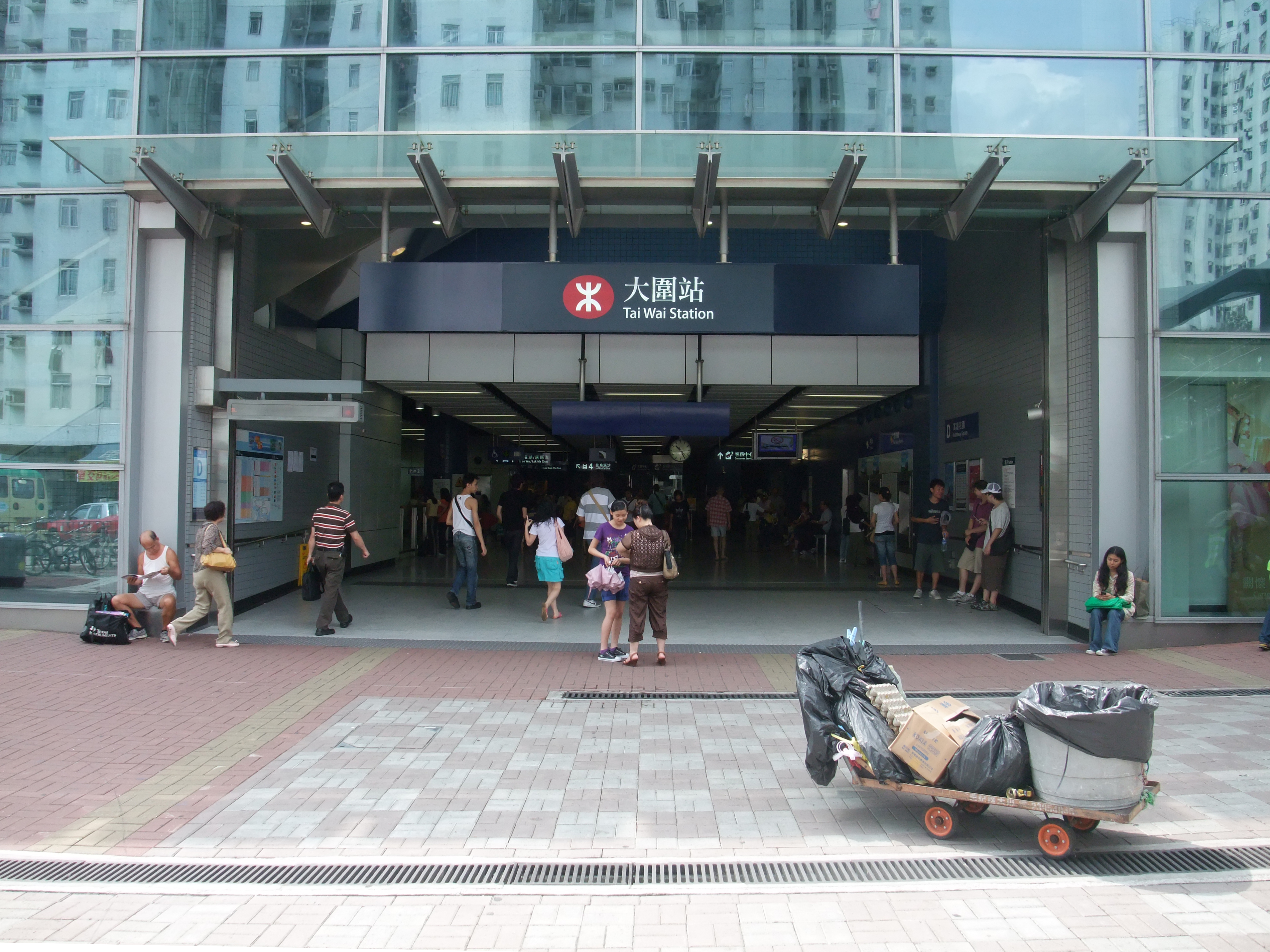 Photo of Tai Wai Station Exit D